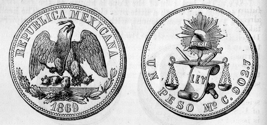 A Mexican silver peso of 1869. "Weight .867.5, fineness 903. Value 4s. 4 5/8d." Both sides shown